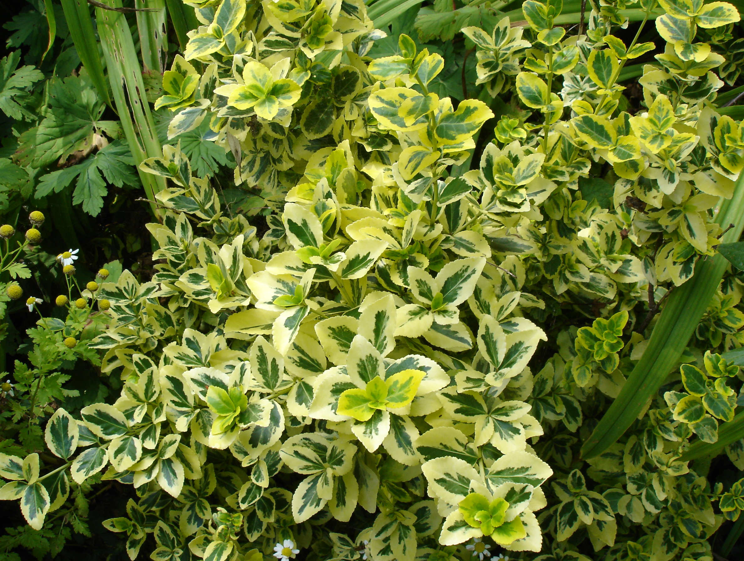 A variegated cultivar of Euonymus fortunei